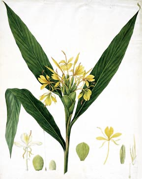 Plate of Hedychium coccineum from Monandrian plants of the order Scitamineae, chiefly drawn from living specimens in the botanic garden at Liverpool. Arranged according to the system of Linnaeus. With descriptions and observations by William Roscoe, printed by G. Smith, Liverpool, 1828.